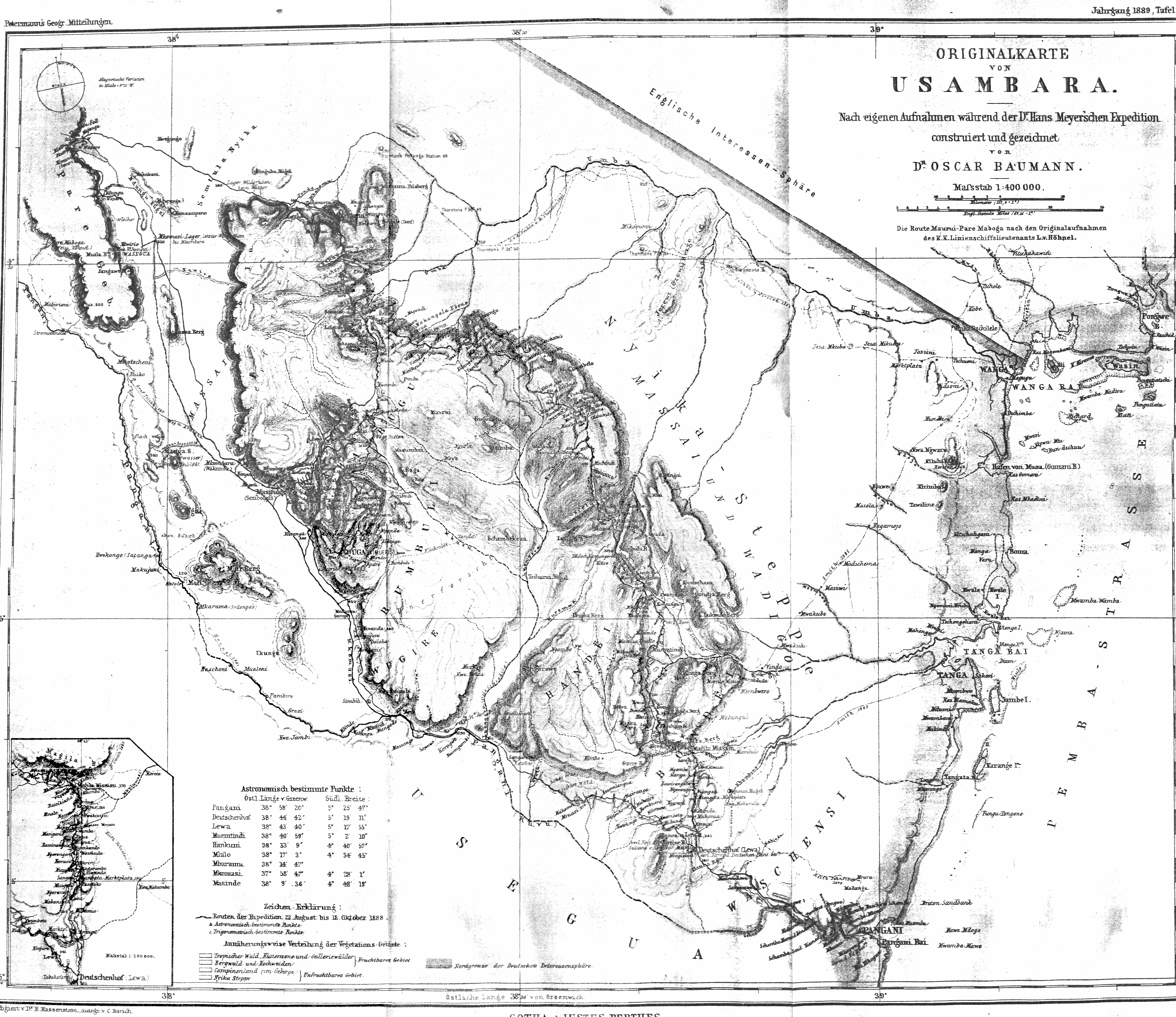 caption: "Original map of Usambara - After own recordings designed and drawed by Dr. Oscar Baumann during the expedition of Dr. Hans Meyer" (map with astronomical postion fixings).